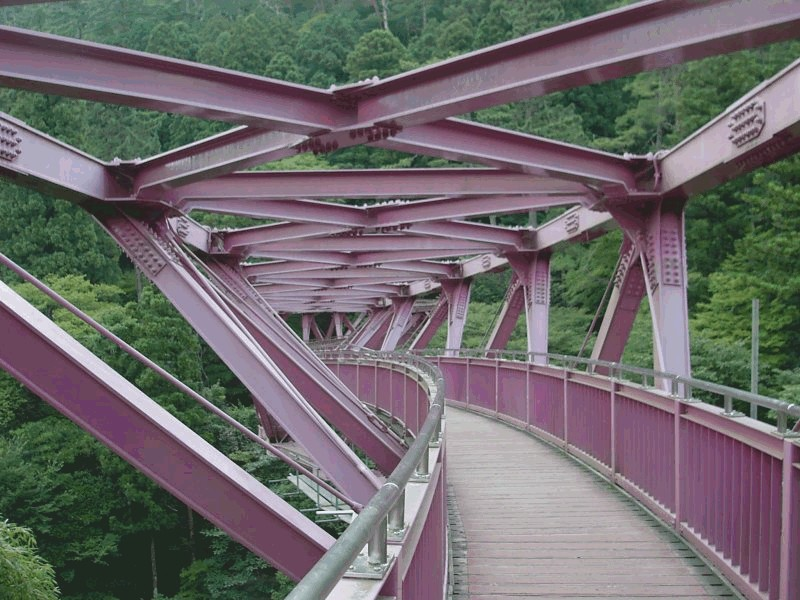 inside curve of bridge